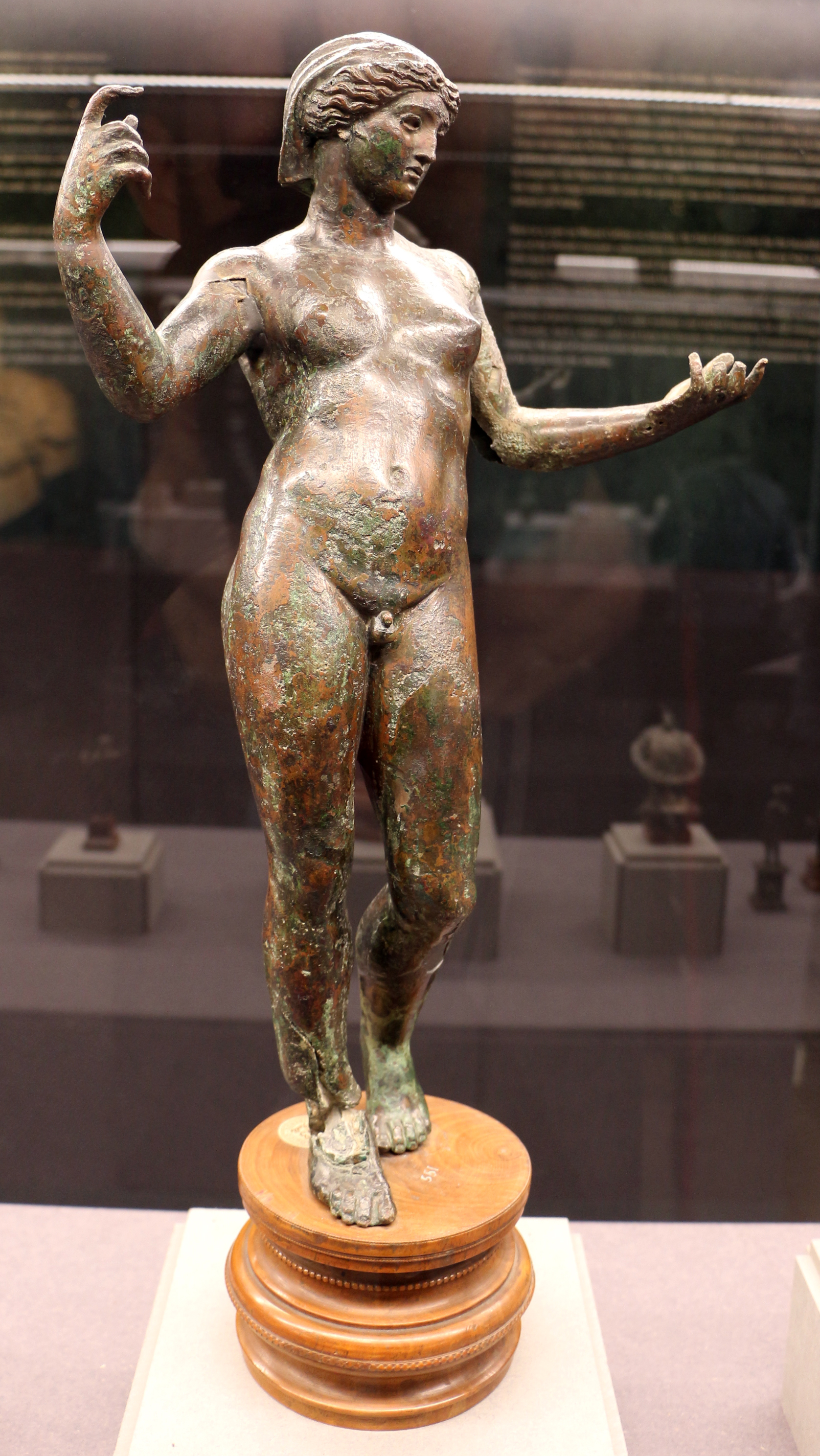 Ancient Roman bronze statuettes in the Museo archeologico nazionale (Florence)